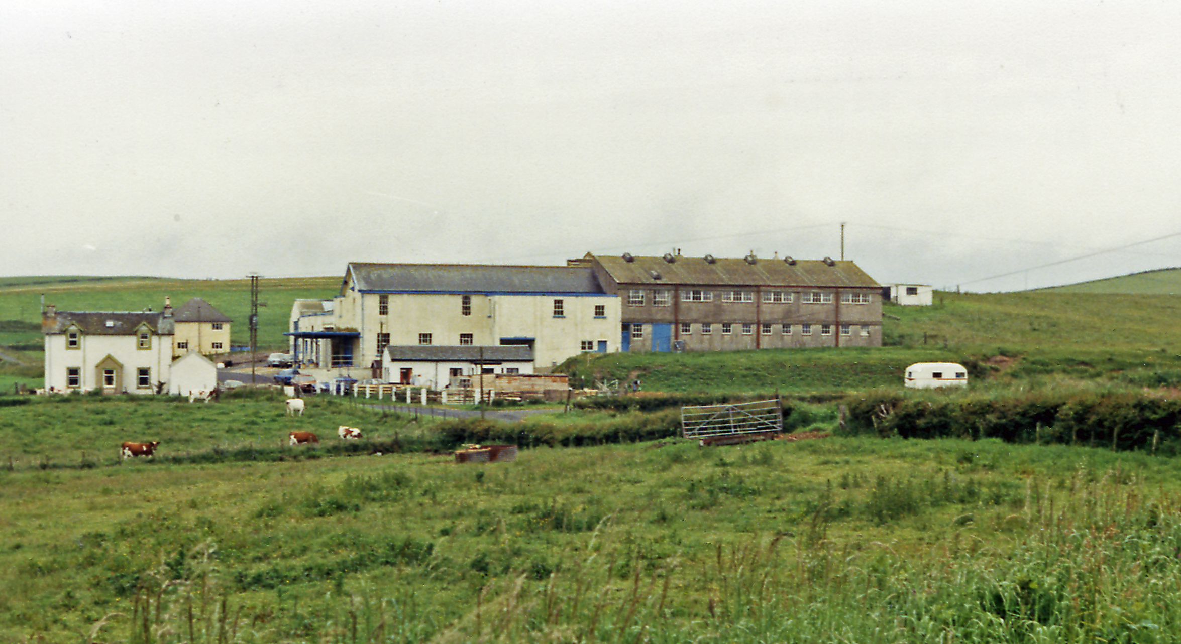 Colfin station (remains), View southward from the A77 road: Stranraer Town (left)- Portpatrick (right) branch of the multi-owned Portpatrick & Wigtownshire Railway (Caledonian, G&SW, LNW & Midland) line from Castle Douglas - where it extended from the G&SW main line from Dumfries and Carlisle. Passenger services at Colfin station and on the line to Portpatrick ceased from 6/2/50, but goods to Colfin continued from Stranraer until 1/4/59. [I cannot say which, if any, of the buildings visible were connected with the Railway].